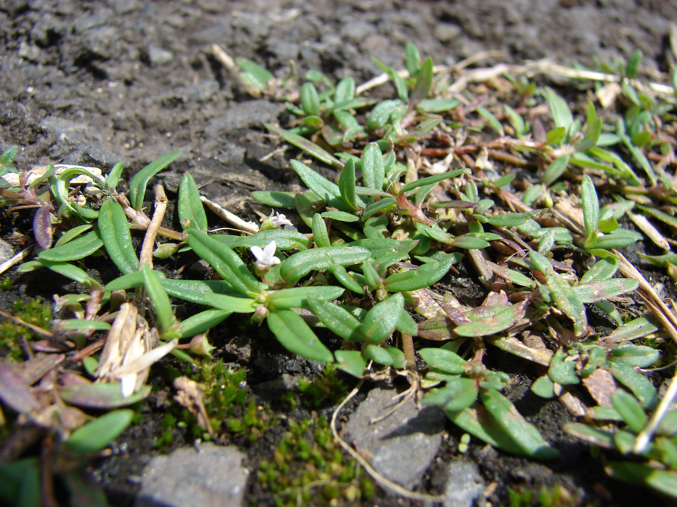 Hedyotis corymbosa (habit). Location: Maui, Hana